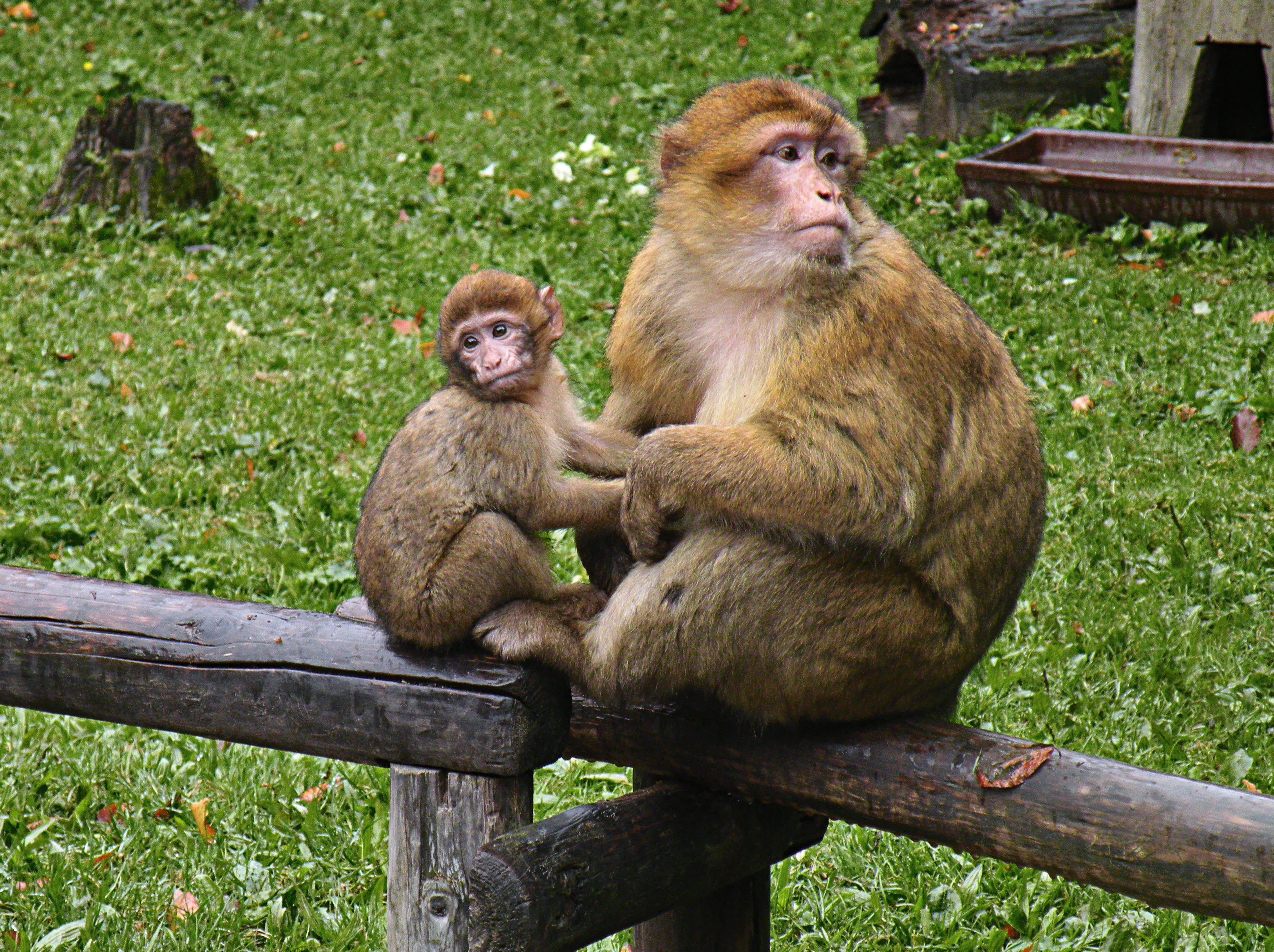 Macaca sylvanus.Mother and baby.